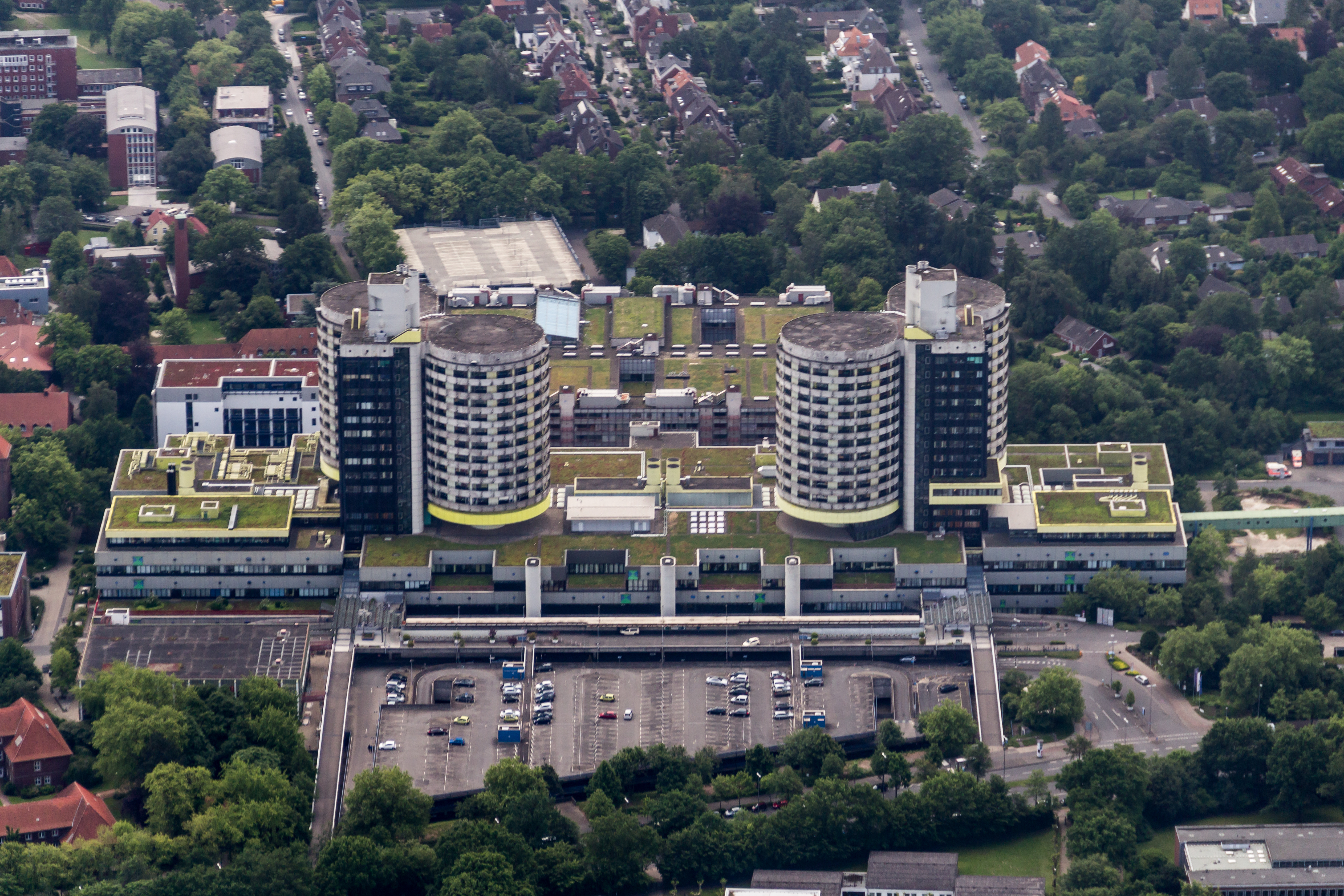 University Hospital, Münster, North Rhine-Westphalia, Germany